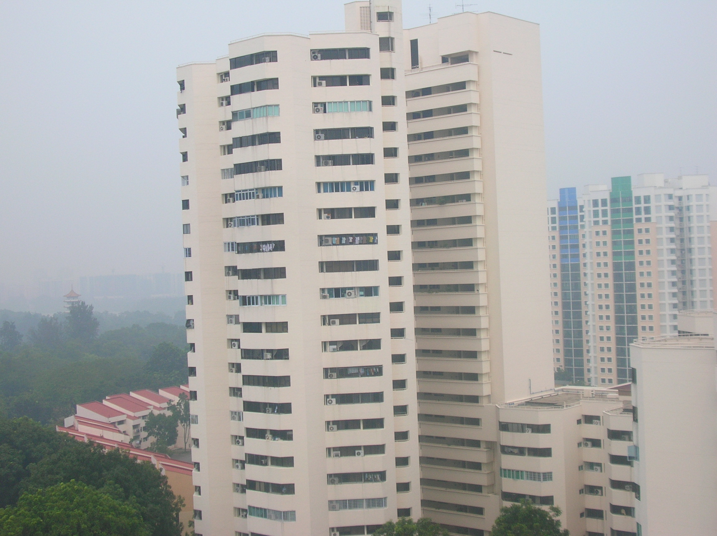 Jurong East is a town in the west region of Singapore. Viewed on October 14 2006 during the 2006 Southeast Asian haze, when the PSI reached 94.